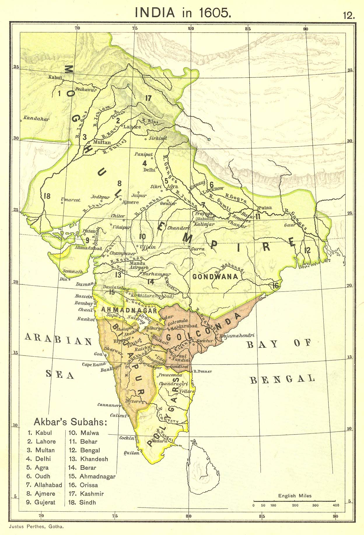 Map of India in 1605